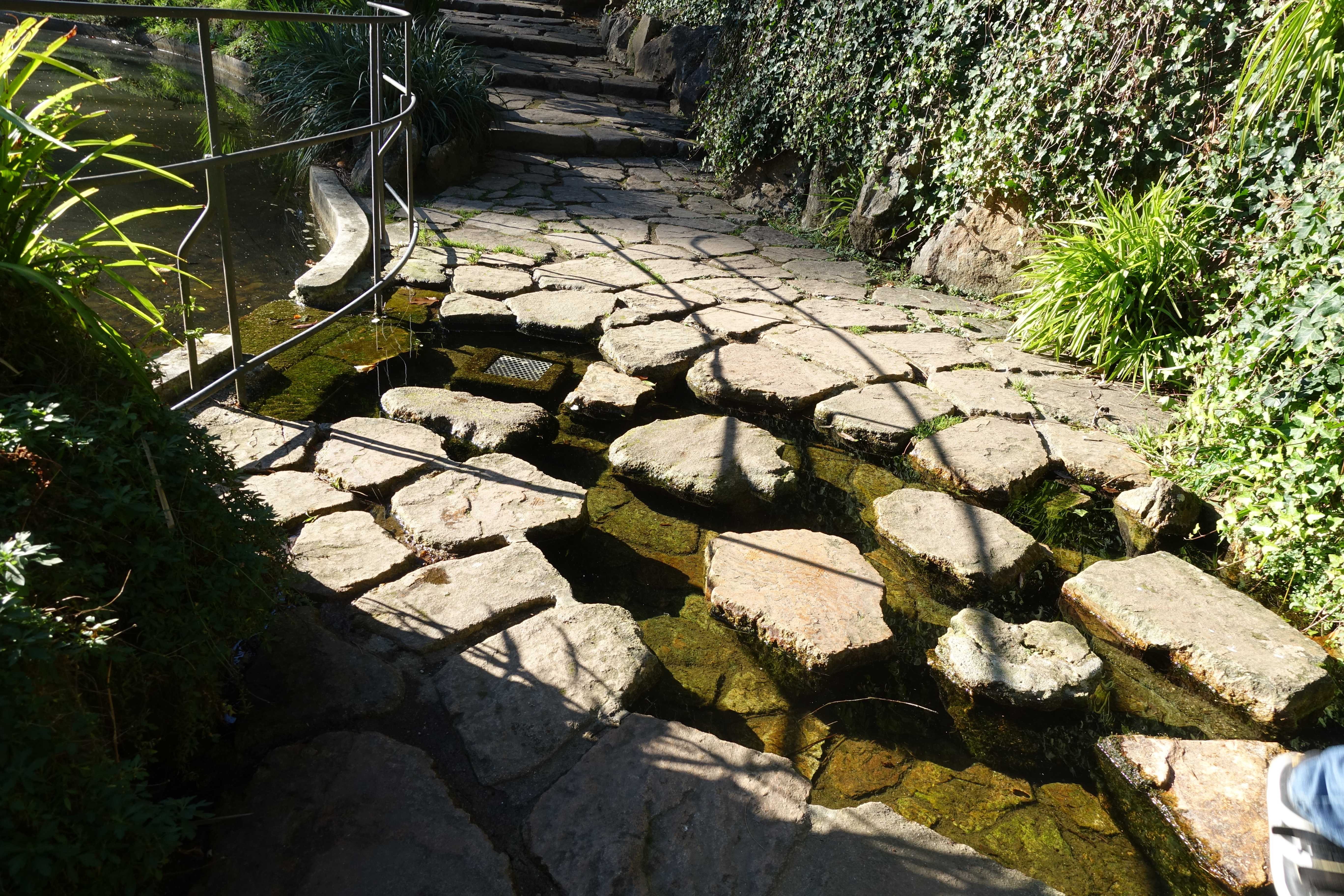 Step-stone bridge in Parque de Serralves Portugal